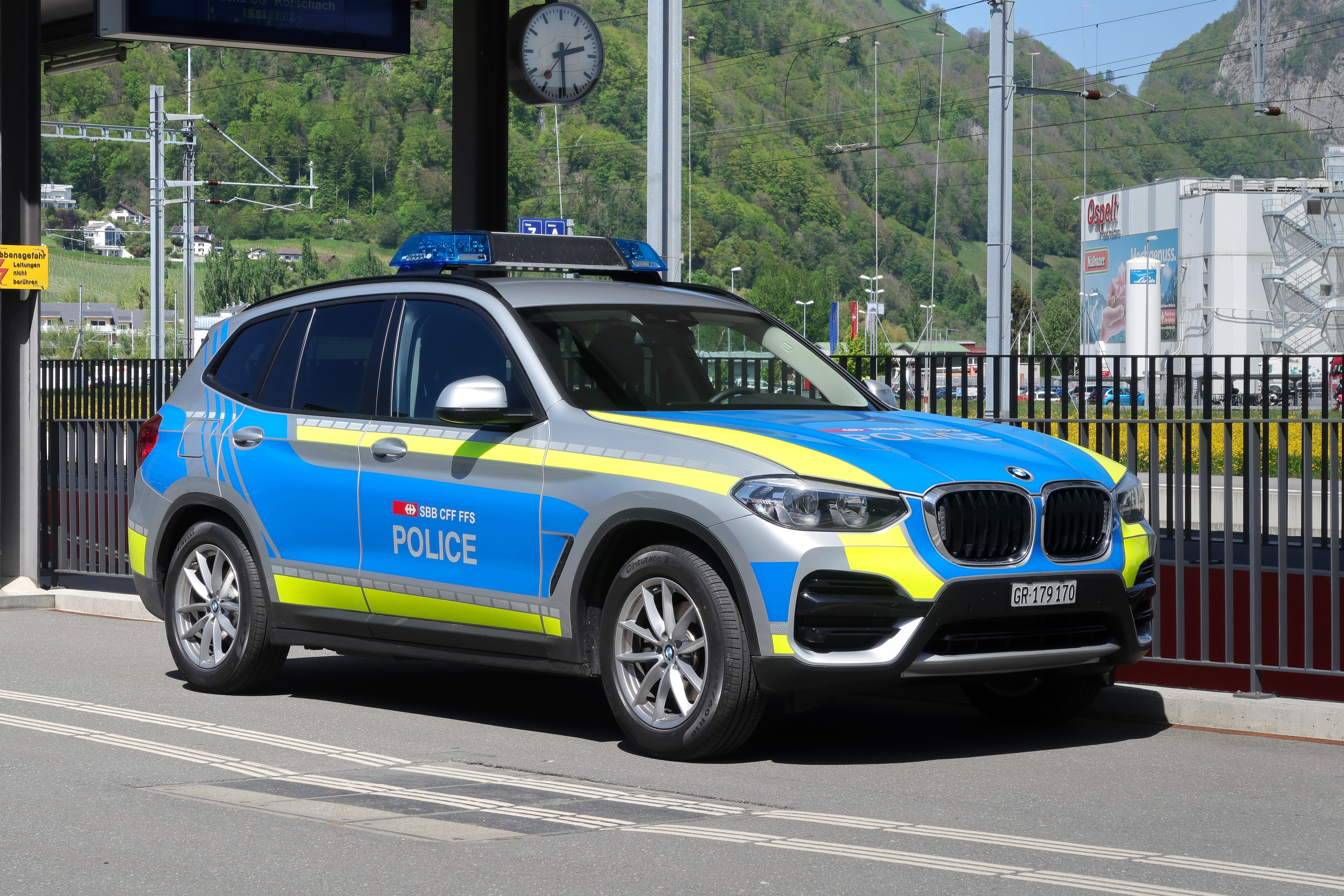 The Swiss Federal Railways SBB operate their own transport police. Previously, the design was in silver and blue only. The yellow color is new. Switzerland, May 1, 2019.